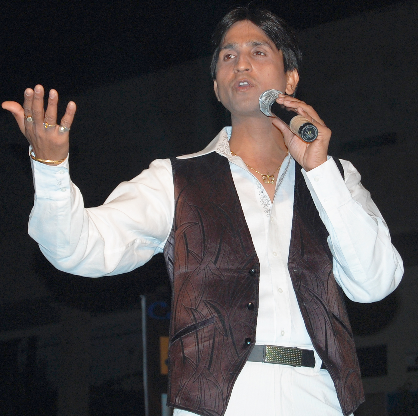 The day of 20th February 2009 was one of the most memorable days in the history of IIITM. On this day the institute organized its ever lasting show of Dr. Kumar Vishvas. The event was graced by the presence of many notable names.Dr. Kumar Vishwas is prominent member of Aam Aadmi Party.